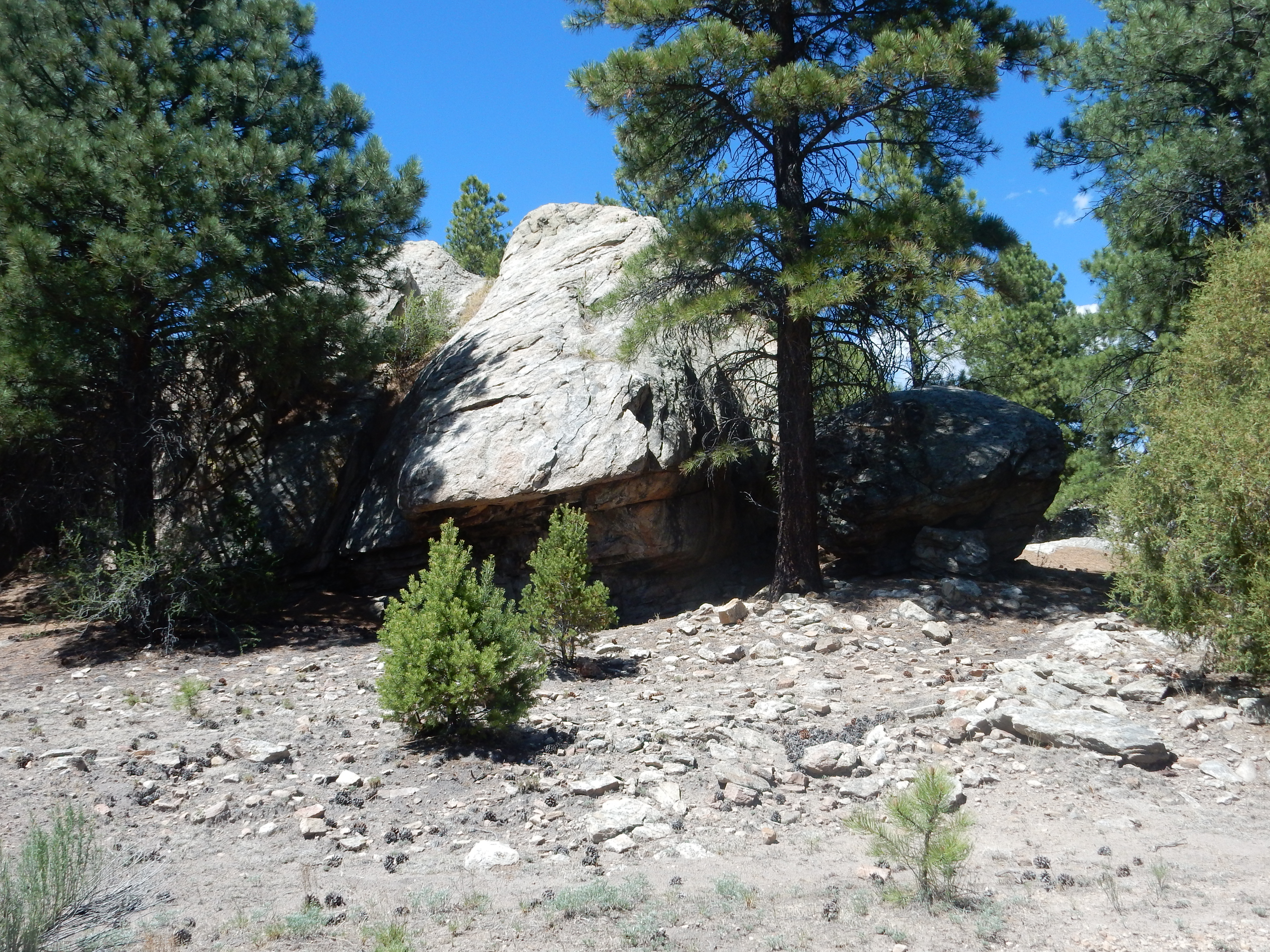 This image shows an outcrop of metarhyolite formerly assigned to the Petaca Schist, but now recognized as highly altered Burned Mountain Formation of the Vadito Group. The radiometric age of this rock is 1700 million years, corresponding to the Statherian Period of the Paleoproterozoic. It is interpreted as ash flows associated with volcanism of the Yavapai orogeny, deposited in the Pilar Basin.